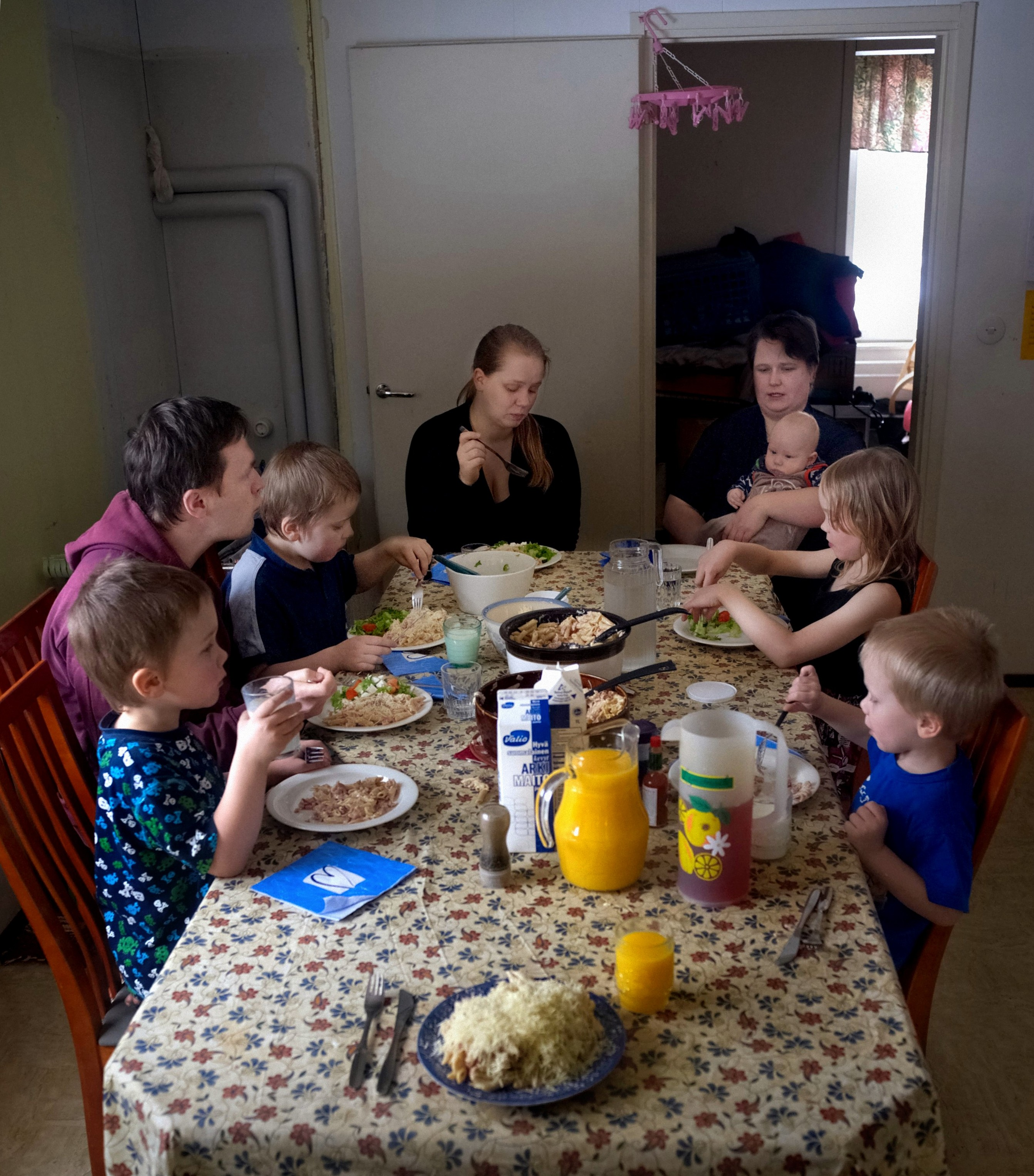 Pasta Carbonara in Ylämaa